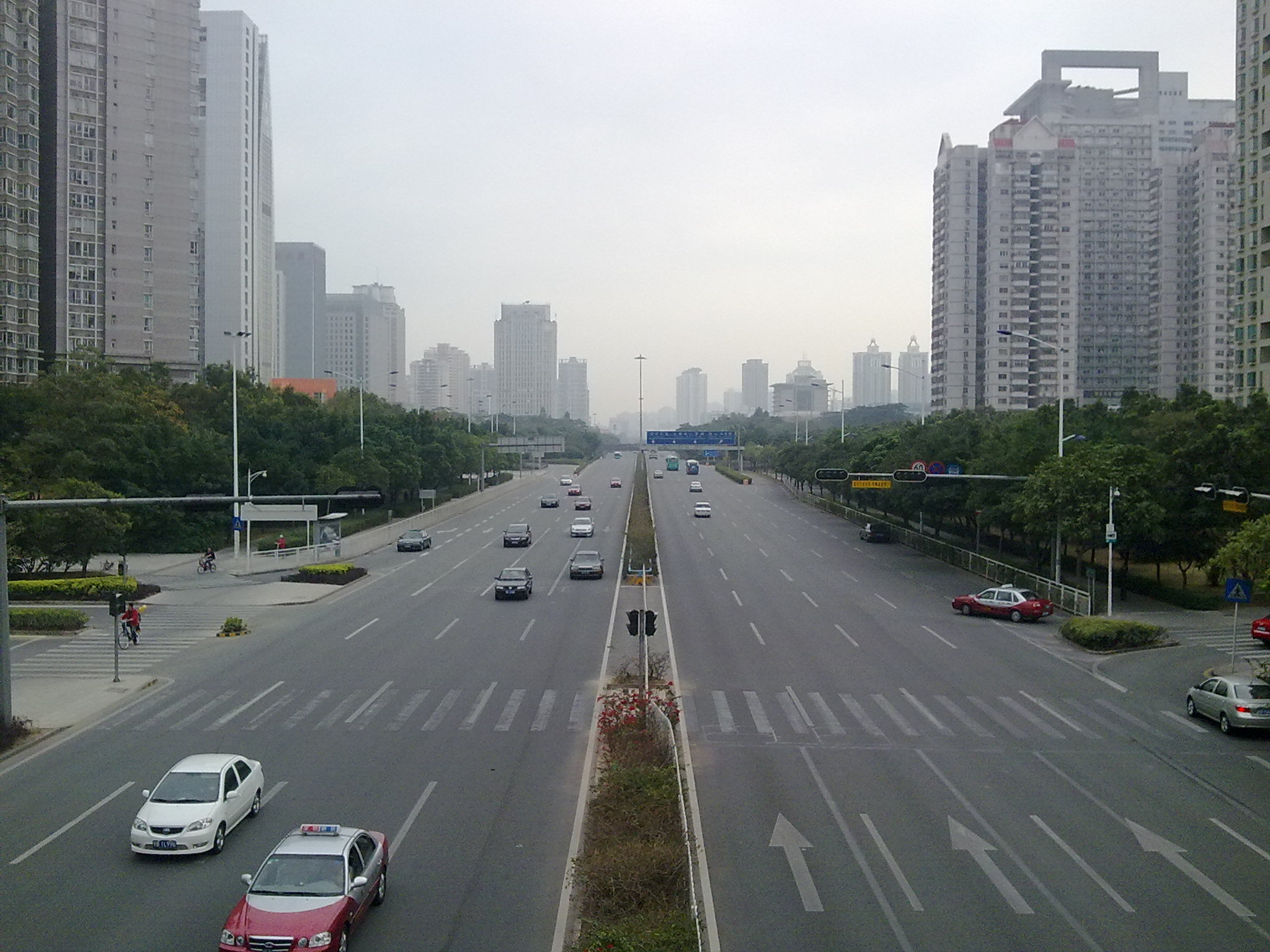 Xin Zhou Rd